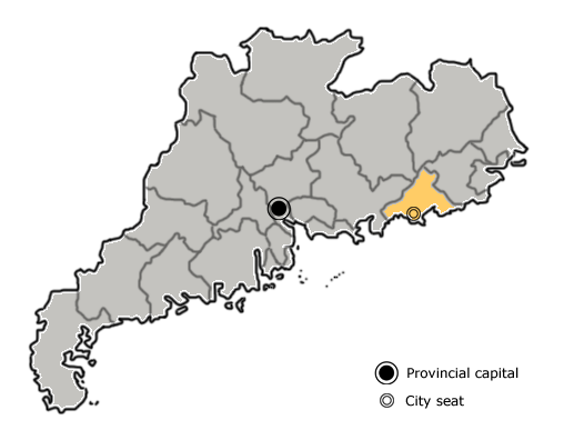 The prefecture-level city of Shanwei is highlighted on this map of Guangdong province, People's Republic of China.